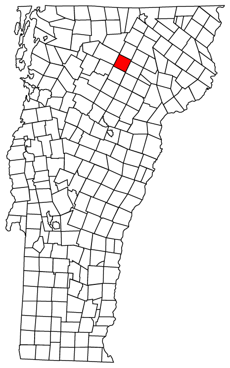 Description: Map of Vermont towns with Craftsbury highlighted Source: Map created by Jared C. Benedict on 26 March 2004. Copyright: © Jared C. Benedict.